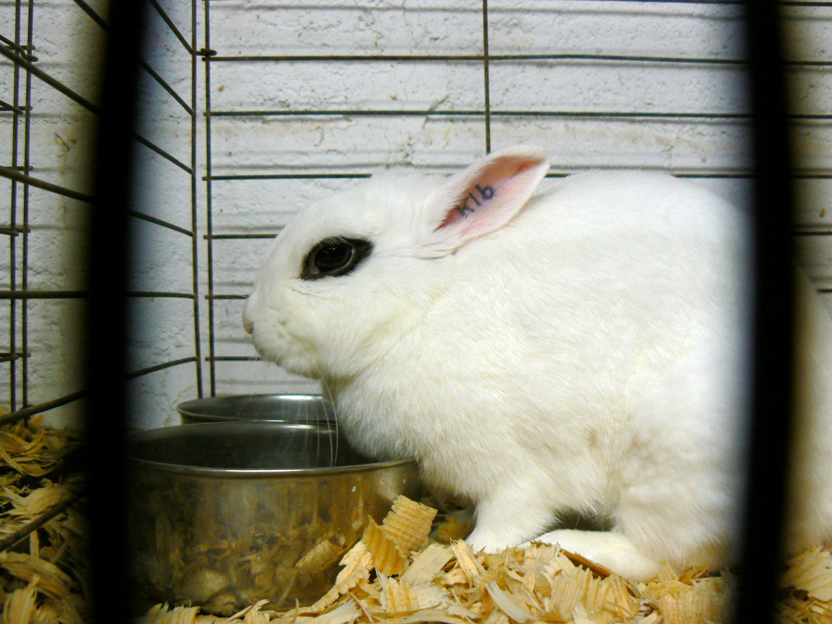 Looking a little sleepy-eyed. Dwarf Hotot